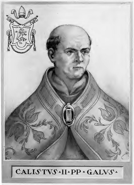 This illustration is from The Lives and Times of the Popes by Chevalier Artaud de Montor, New York: The Catholic Publication Society of America, 1911. It was originally published in 1842.